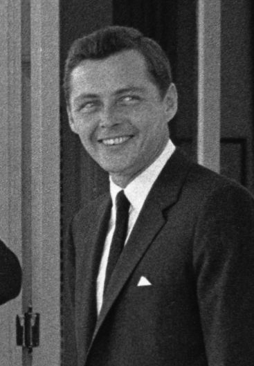 1 Stephen Edward Smith at the White House.